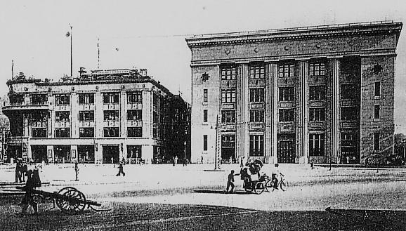 Mitsukoshi Department Store — Keijo (Seoul) Branch, and the Chosen Savings Bank. Built during the Japanese Colonial Korea period (1910-1945).